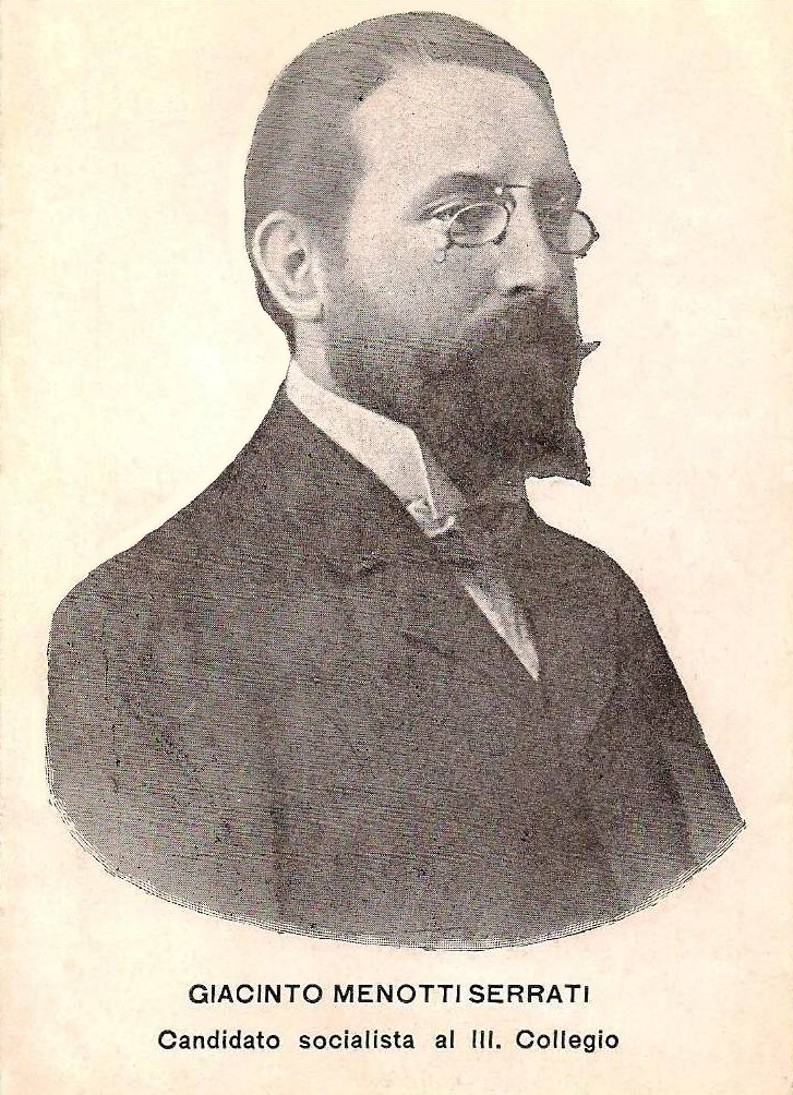 Giacinto Menotti Serrati — candidato socialista al iii collegio.